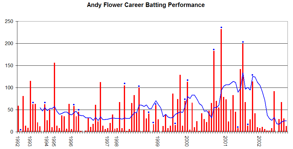 This graph details the Test Match performance of Andy Flower. It was created by Raven4x4x. The red bars indicate the player's test match innings, while the blue line shows the average of the ten most recent innings at that point. Note that this average cannot be calculated for the first nine innings. The blue dots indicate innings in which Flower finished not-out. This graph was generated with Microsoft Excel 2002, using data from Cricinfo and .au.